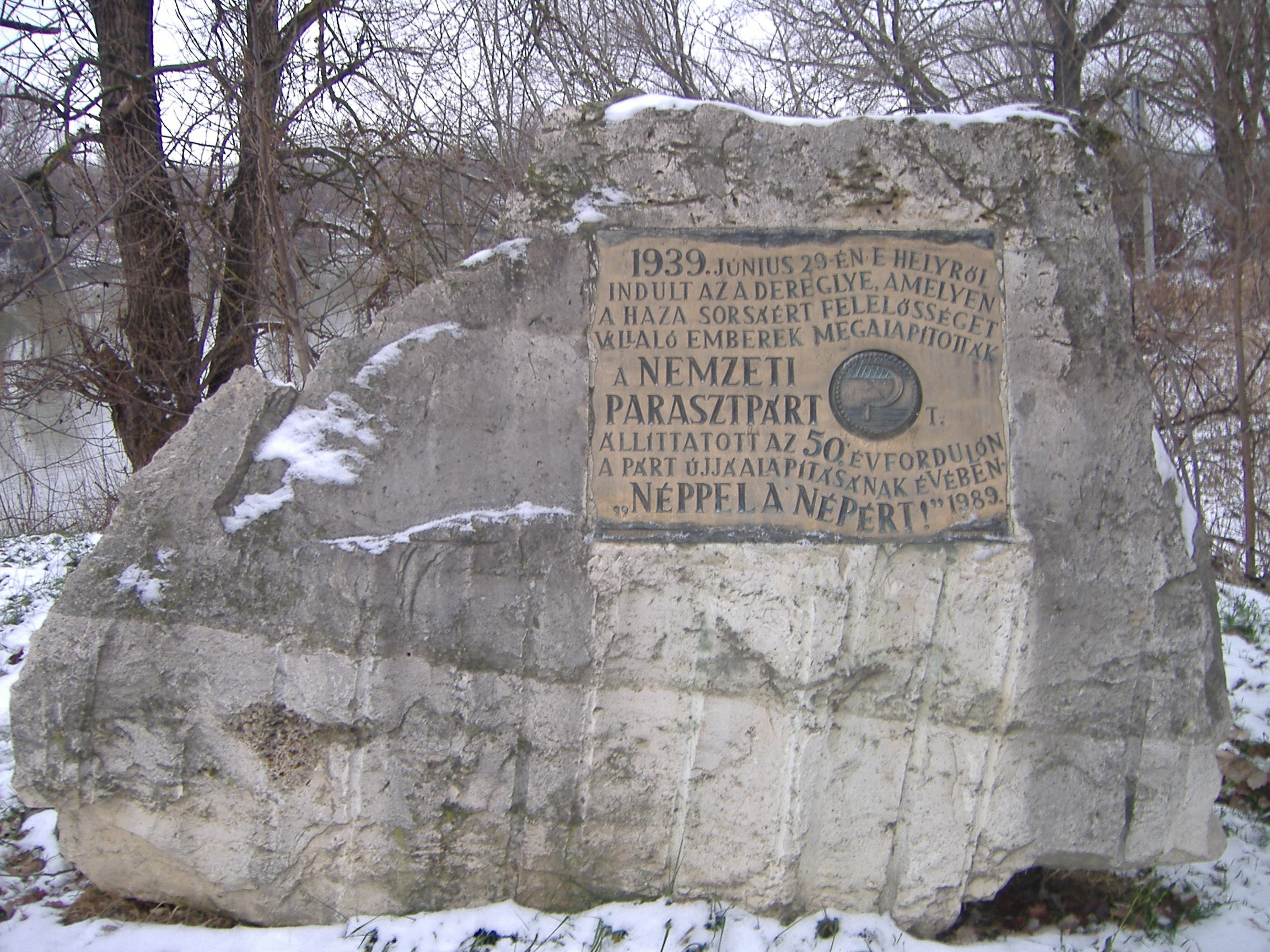 Memorial for the 50th anniversary of the Nemzeti Parasztpárt's foundation in Makó